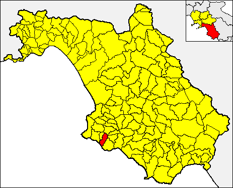 Locator map of the municipality of San Mauro Cilento (red) within the Province of Salerno